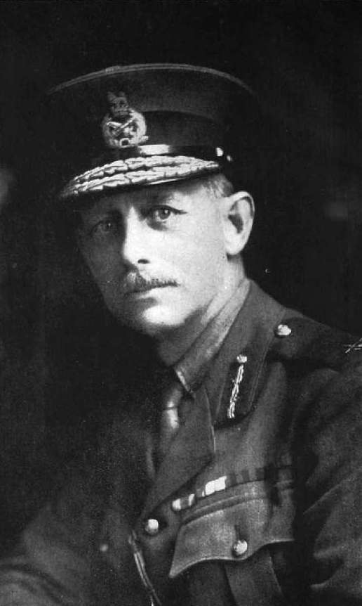 Brigadier-General H. T. Fulton, C.M.G., D.S.O. Portrait taken some time between 1915 and 1918. Image sourced from The New Zealand Electronic Text Centre.